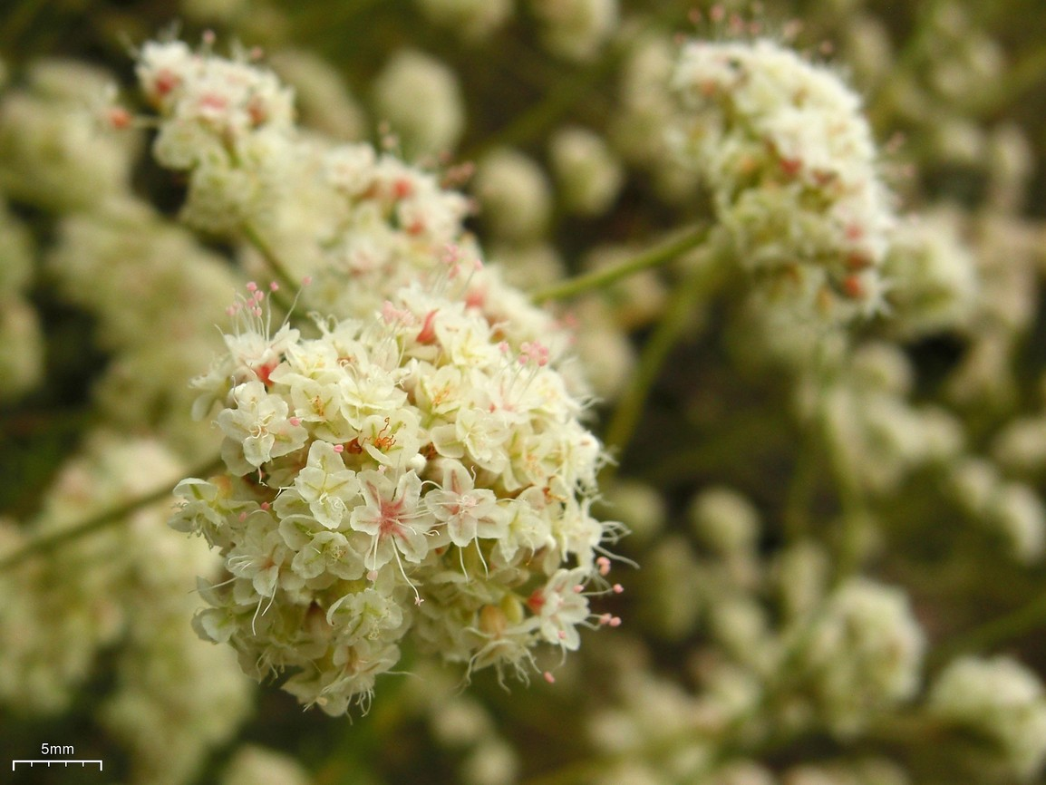 Eriogonum fasciculatum 20100706.56 Mount Wilson, San Gabriels, so. CA